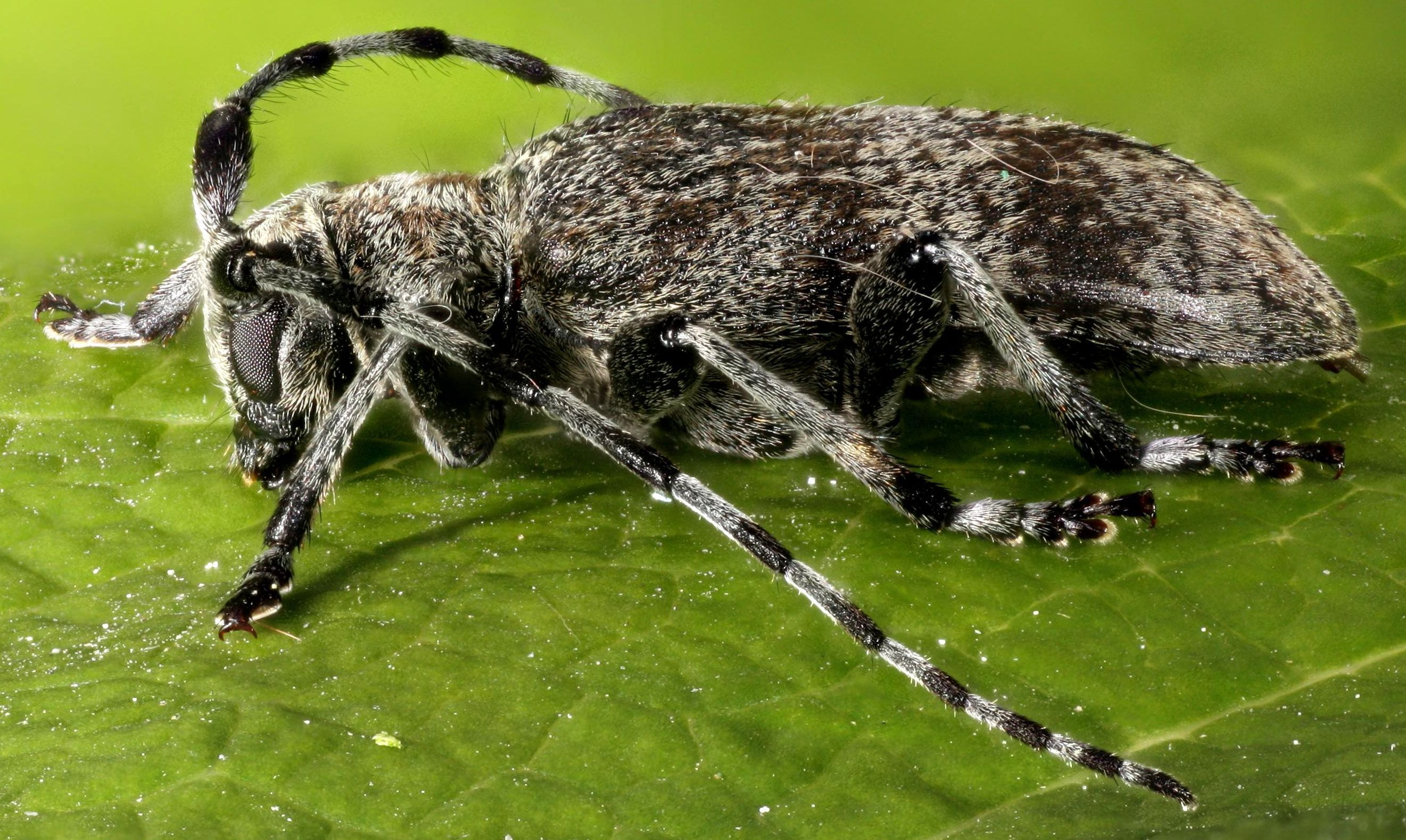 Male Longhorn beetle Oplosia cinerea